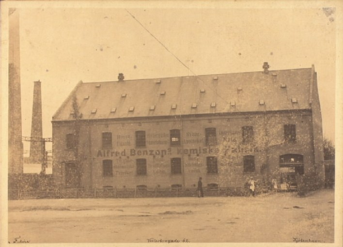 Alfred Benzon's factory (today's Nomeco) at Vesterbrogade 62 in Copenhagen, 1883.